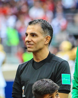 Saudi Arabia national football team